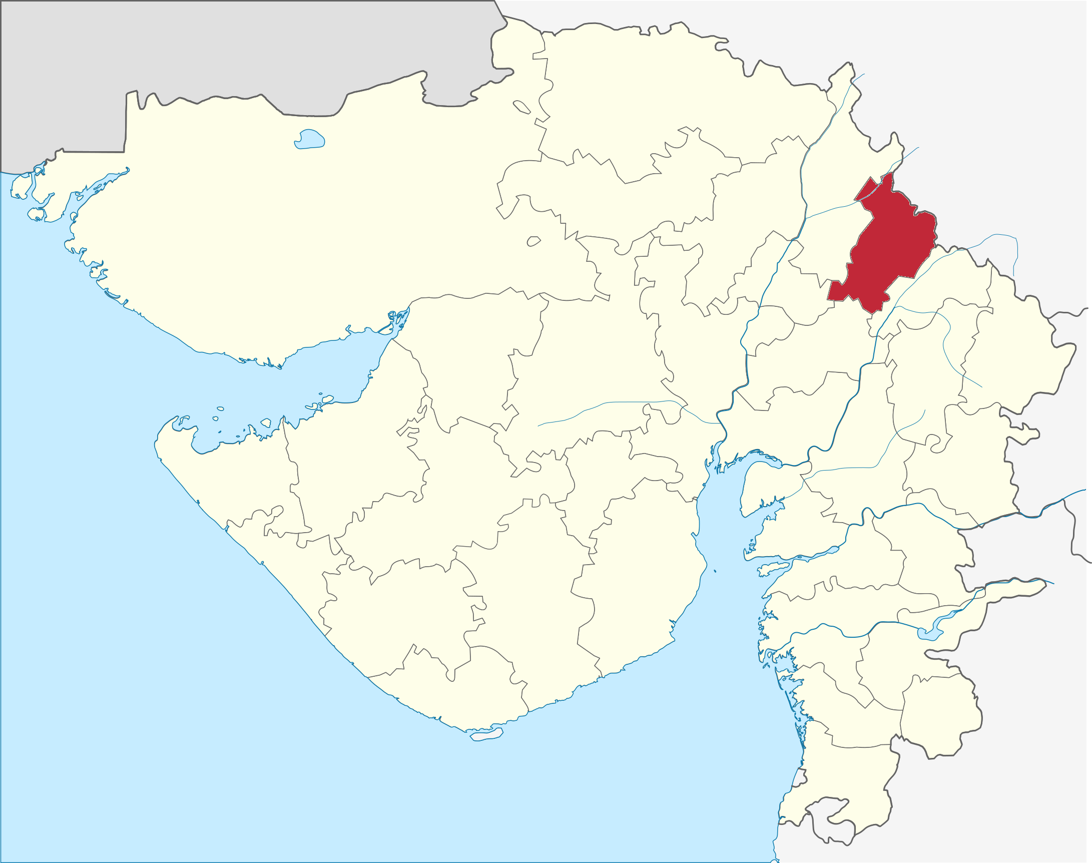 Location of Aravalli district